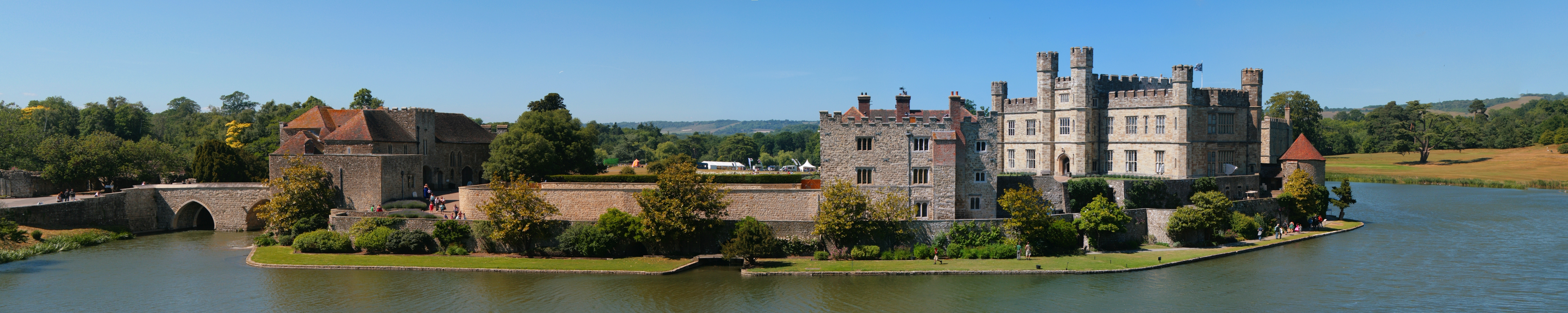 Panorama of Leeds Castle in September, 2011.